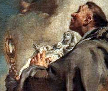 St. Hyacinth depicting with a monstrance and a statue of Mary